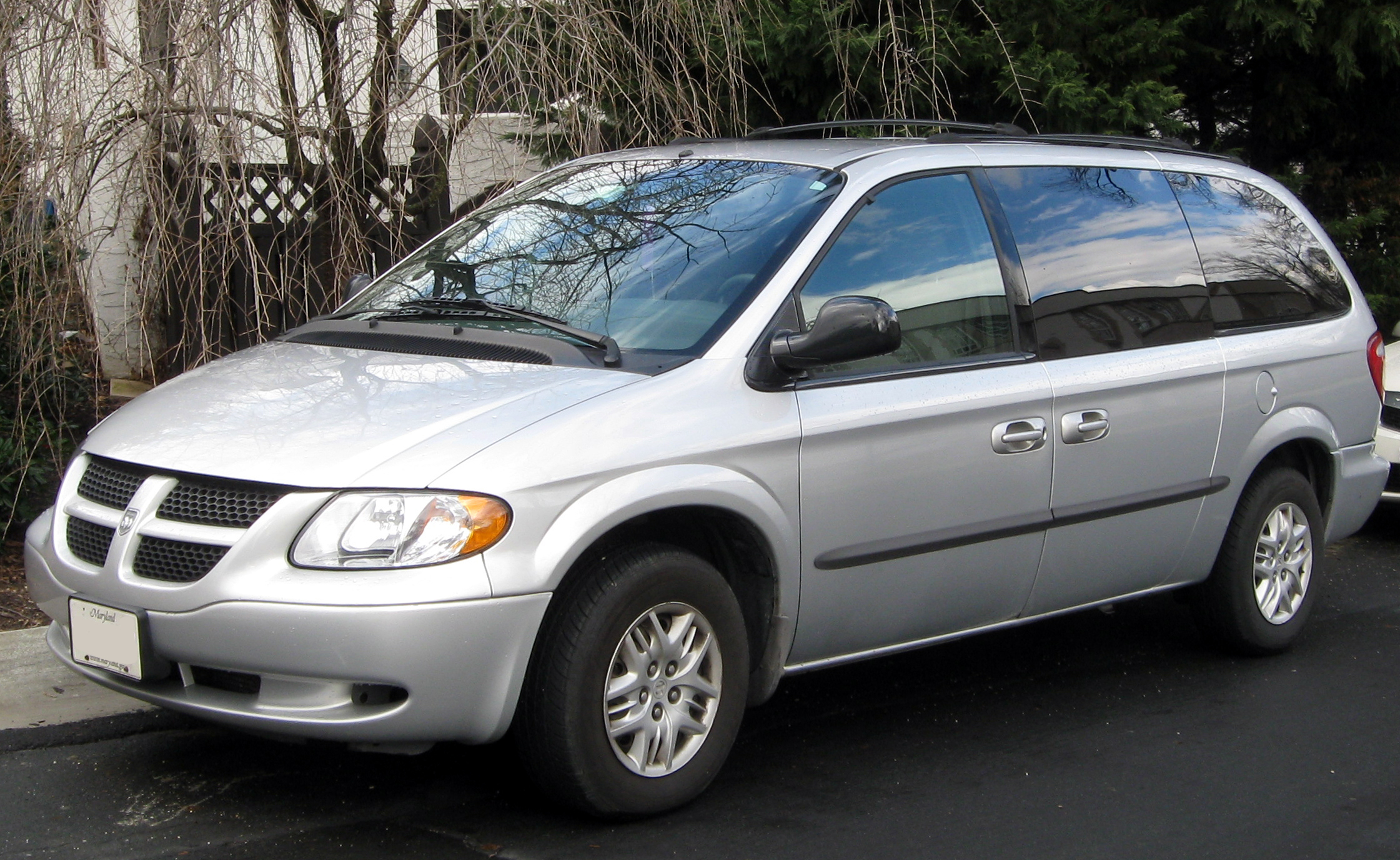 2001 Dodge Grand Caravan photographed in Chevy Chase, Maryland, USA.